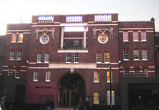 The China Inland Mission, Newington Green, Mildmay, Islington, London. 15 October 2005. Photographer: Fin Fahey.